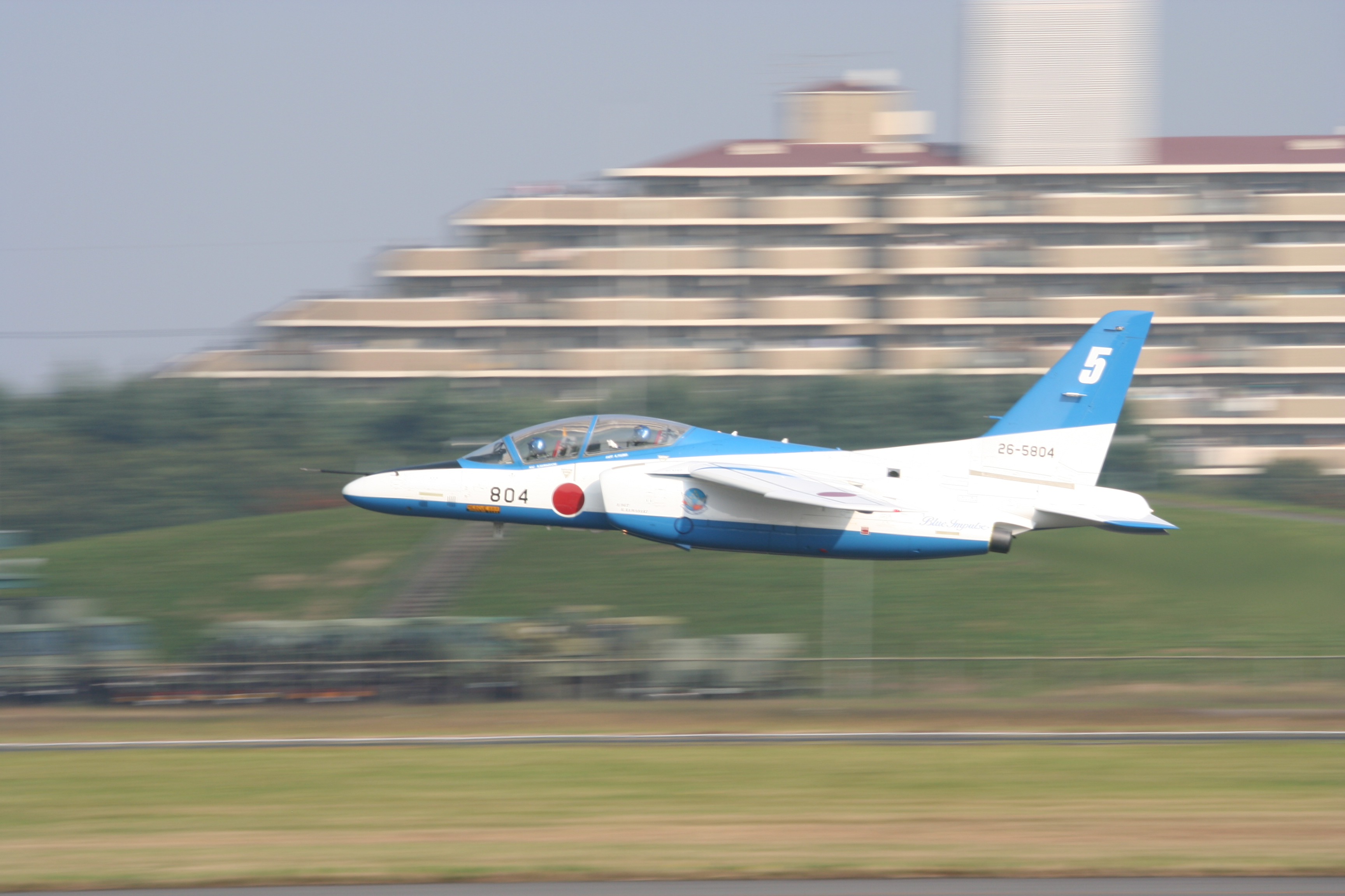 JASDF Blue Impulse T4. At Iruma Base.